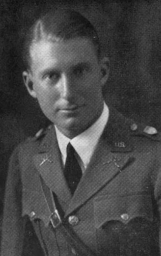 Douglas C. McNair (US Army officer)